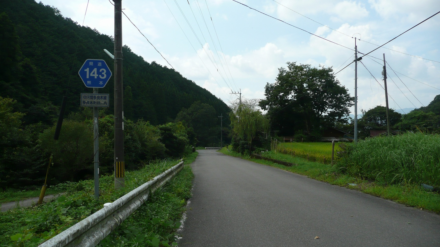 Kumamoto Prefectural Road 143 (Taragi, Kumamoto, Japan)